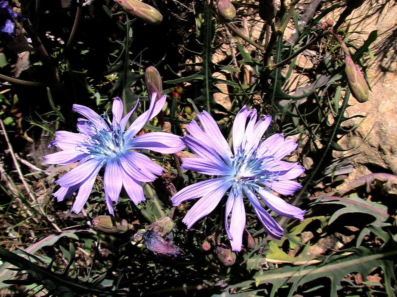 Lactuca perennis. In Camarasa (Noguera- Catalunya). To 920 m. altitude